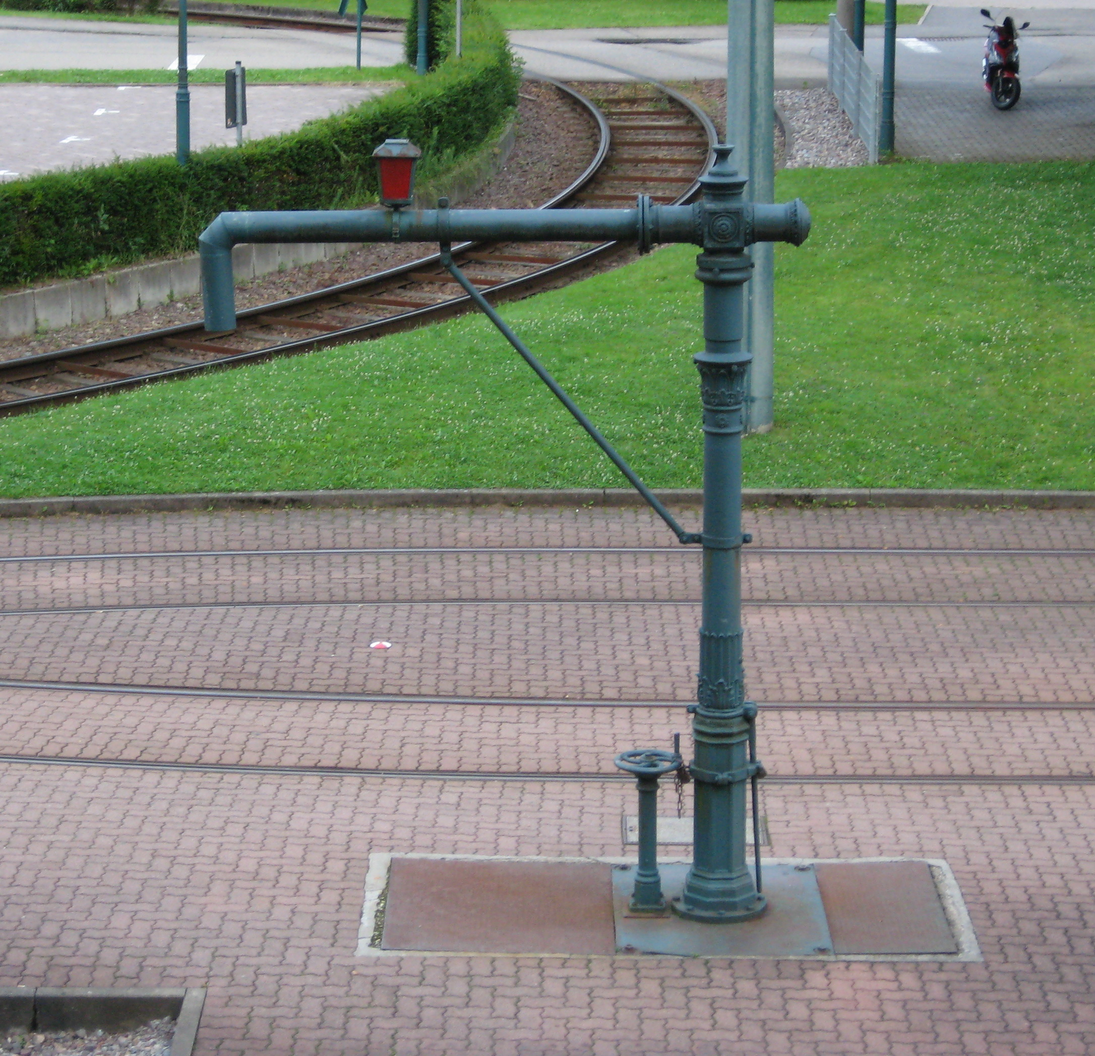 Water crane in Bad Herrenalb, Germany